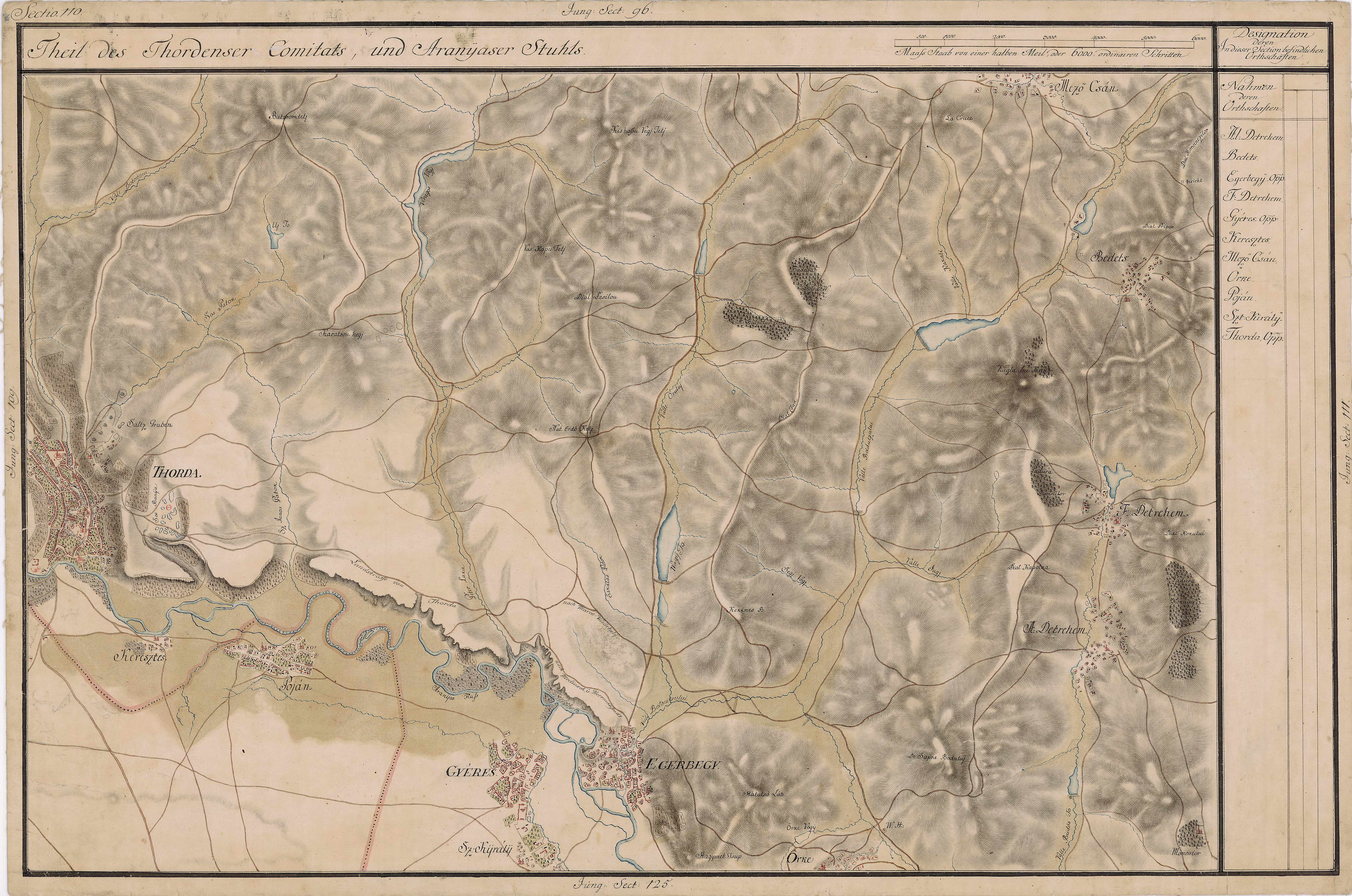 Grand Duchy of Transylvania, 1769-1773. Josephinische Landaufnahme pg.110Română: Harta Iosefină a Transilvaniei, 1769-1773. Josephinische Landaufnahme pg.110